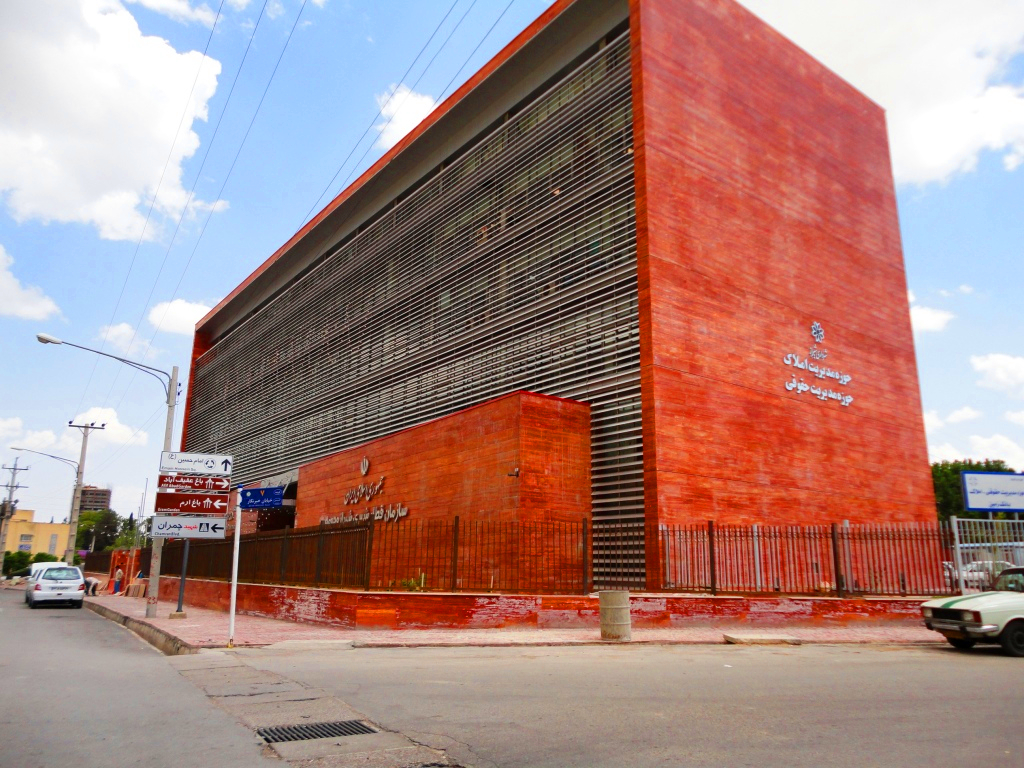 shiraz